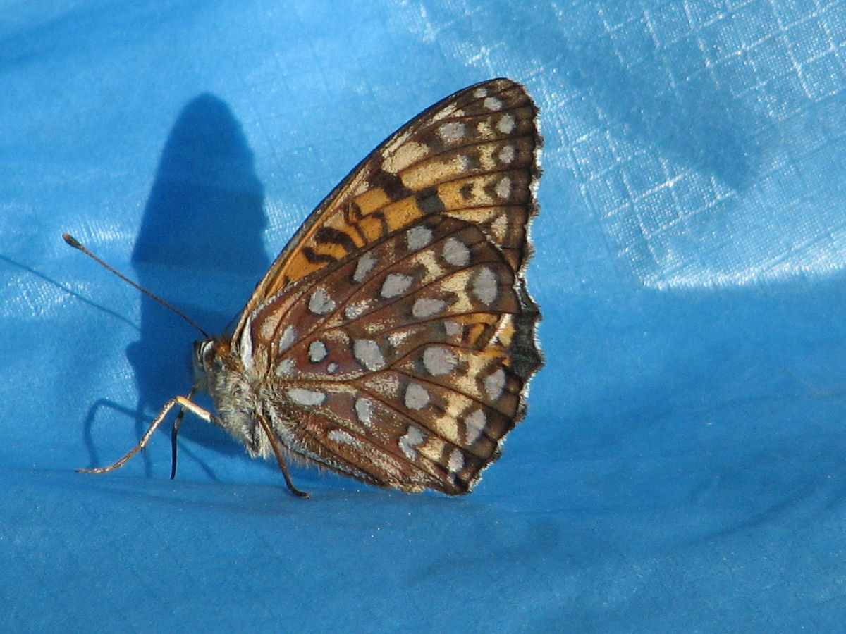 Atlantis fritillary (Speyeria atlantis) taken in Lady Evelyn-Smoothwater Park, Temagami, Ontario